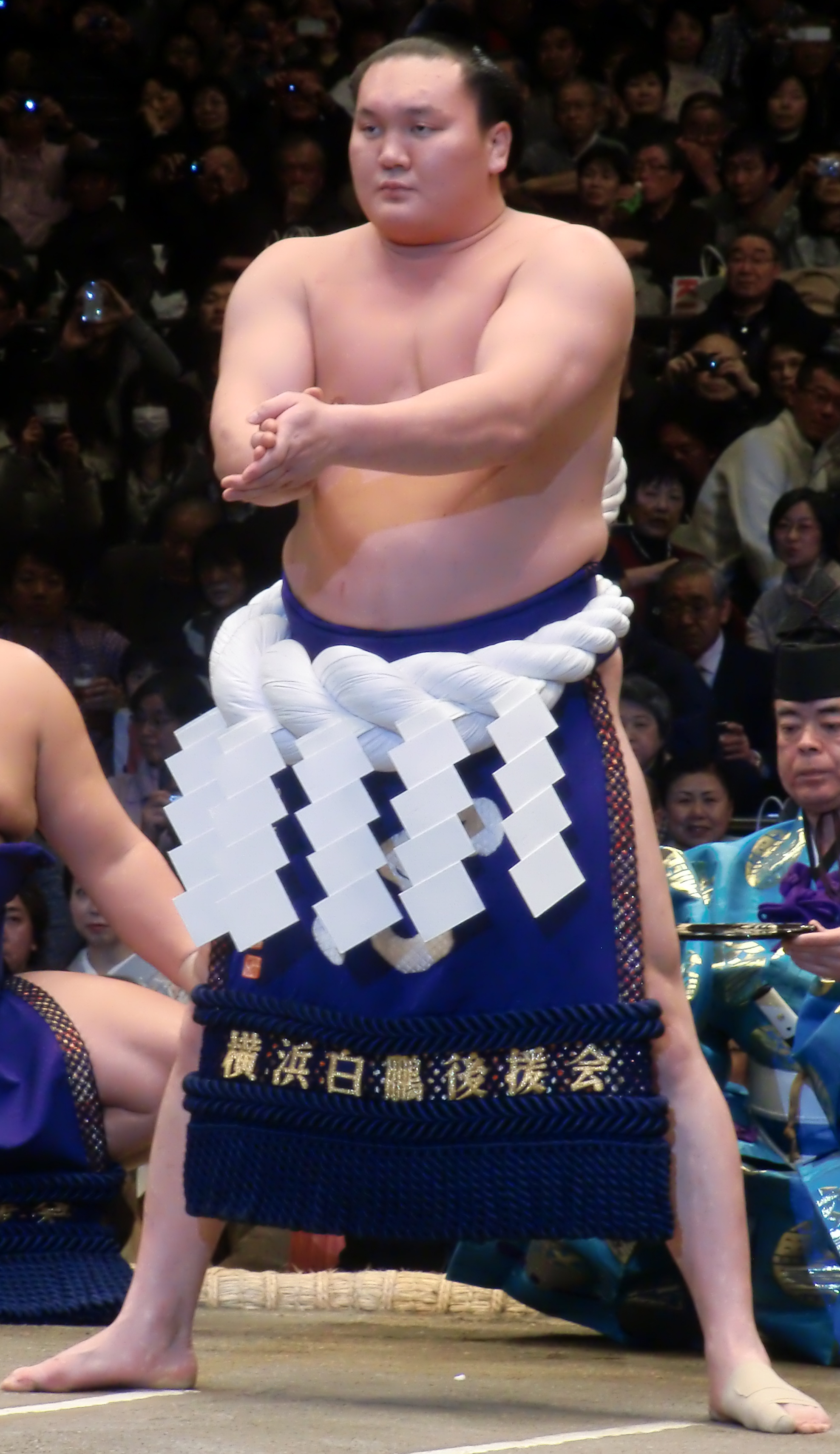 taken at 2012 Jan tournament